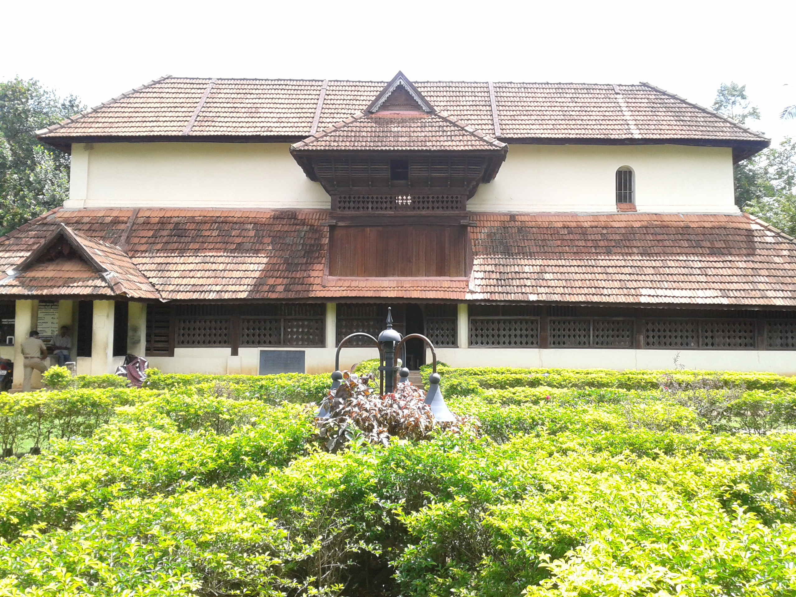 Koyikkal Palace is located at Nedumangad 18 km from Trivandrum, on the way to Ponmudi and Courtallam waterfalls.